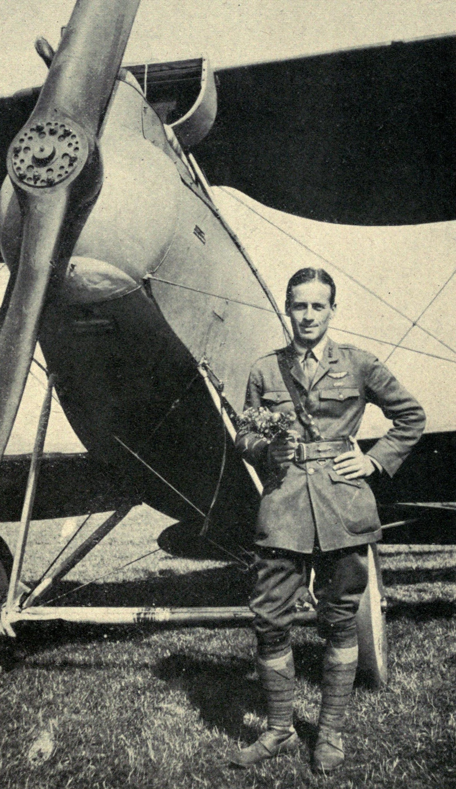 Photograph of aviator Charles J. Biddle (born 1890), Toul, September 1, 1918. Description by Biddle from "The way of the eagle" (1919, p245): Then a french general put in an appearance and made me stand up in front of the Boche plane with flowers in my hand while he took my picture. I felt awfully foolish during this procedure with about three thousand people looking on, but you will see from the enclosed photo what sweet and girlish smile I managed to assume.